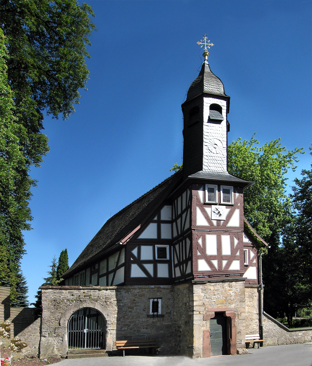 Cemetery chapel of Homberg (Ohm), build in 1583